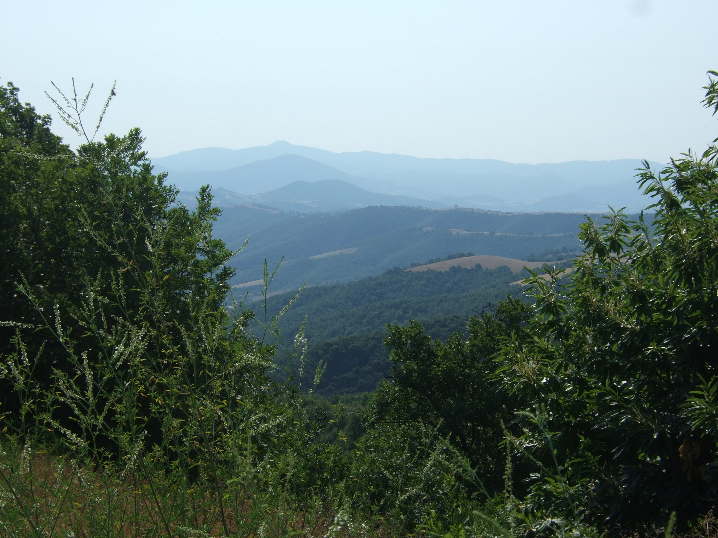 three peaks in the Chortiatis Mountains source name: dscf_F30-2_010017_drei_Gipfel_im_Chortiatis-Gebirge_.jpg